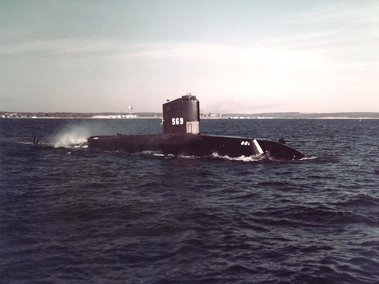 The U.S. Navy submarine USS Albacore (AGSS-569) underway off Newport, Rhode Island (USA), on 11 March 1957.